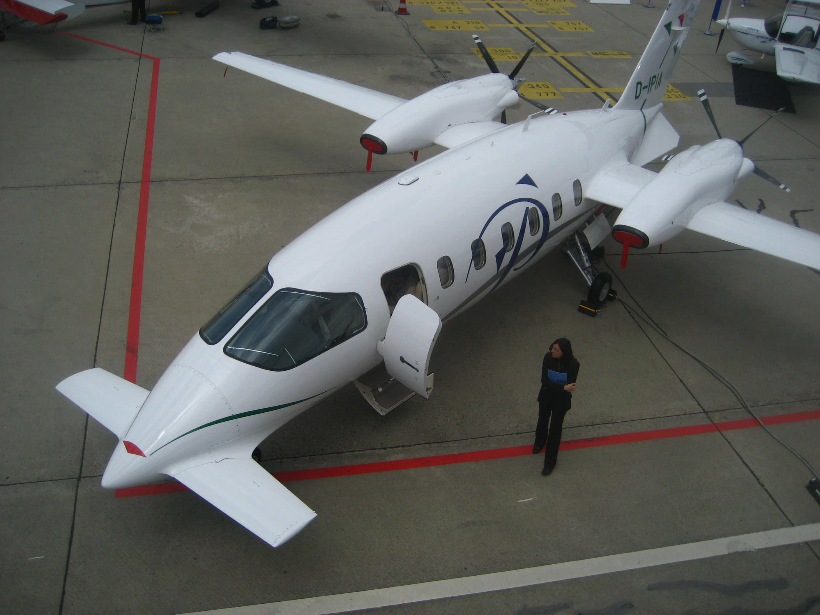 A top down shot of a Piaggio Avanti II (P180) turboprop aircraft.